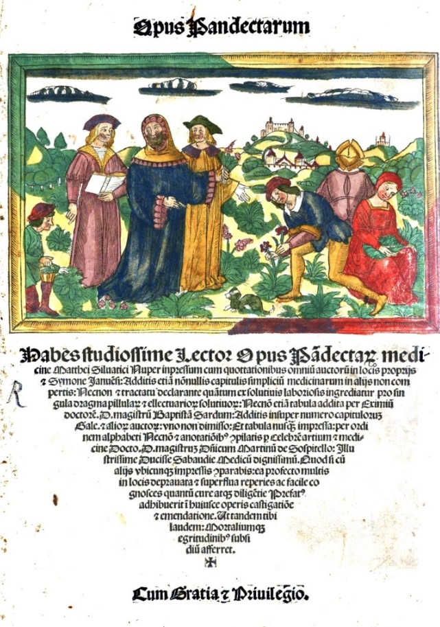 Matthaeus Silvaticus, Liber pandectarum medicinae (Turin, 1526) title page